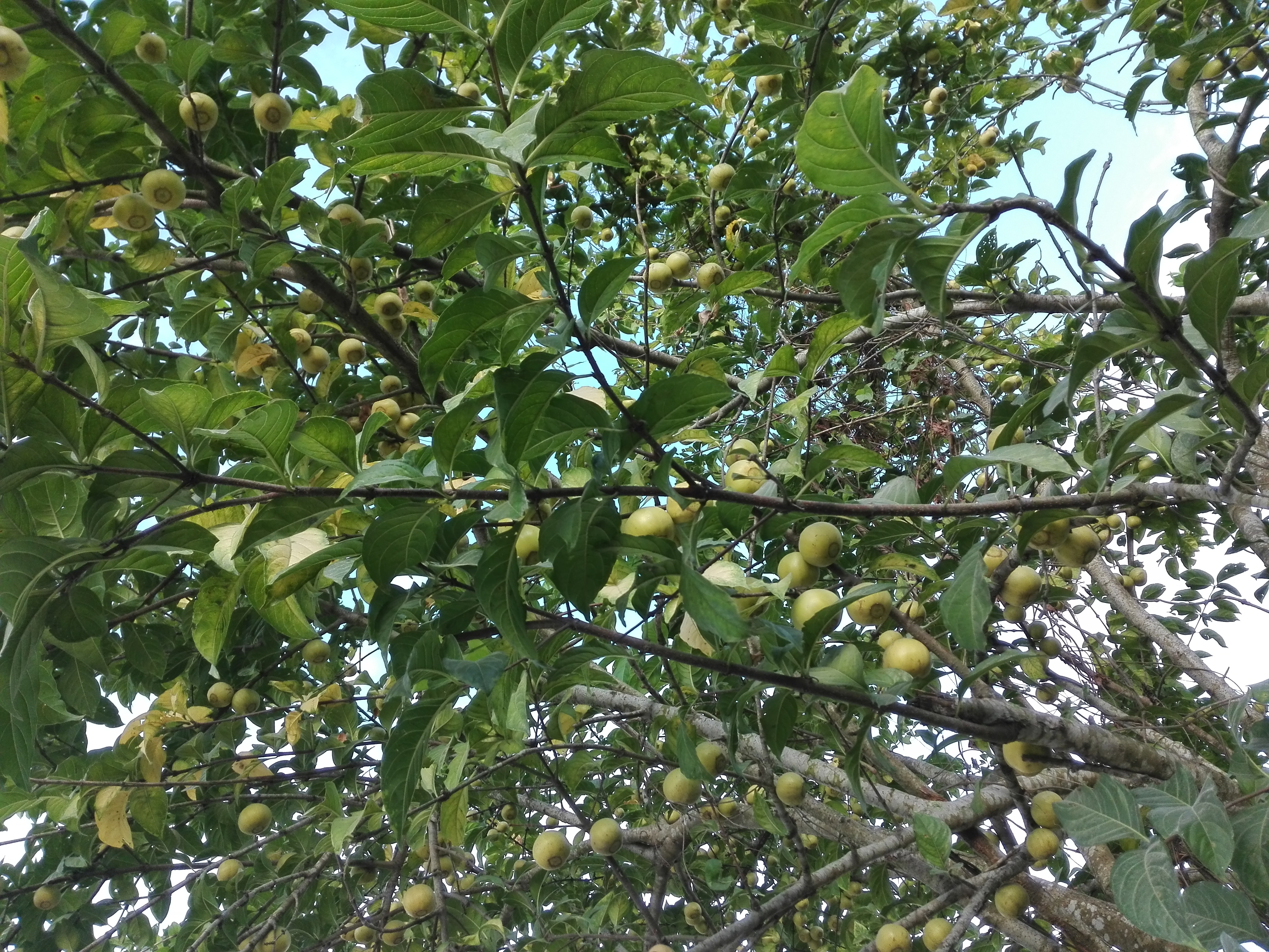 কোটকোৰাৰ বৈজ্ঞানিক নাম মিয়েনা স্পিনোছা আৰু ই ৰাবিয়েচি গোত্ৰৰ উদ্ভিদ।